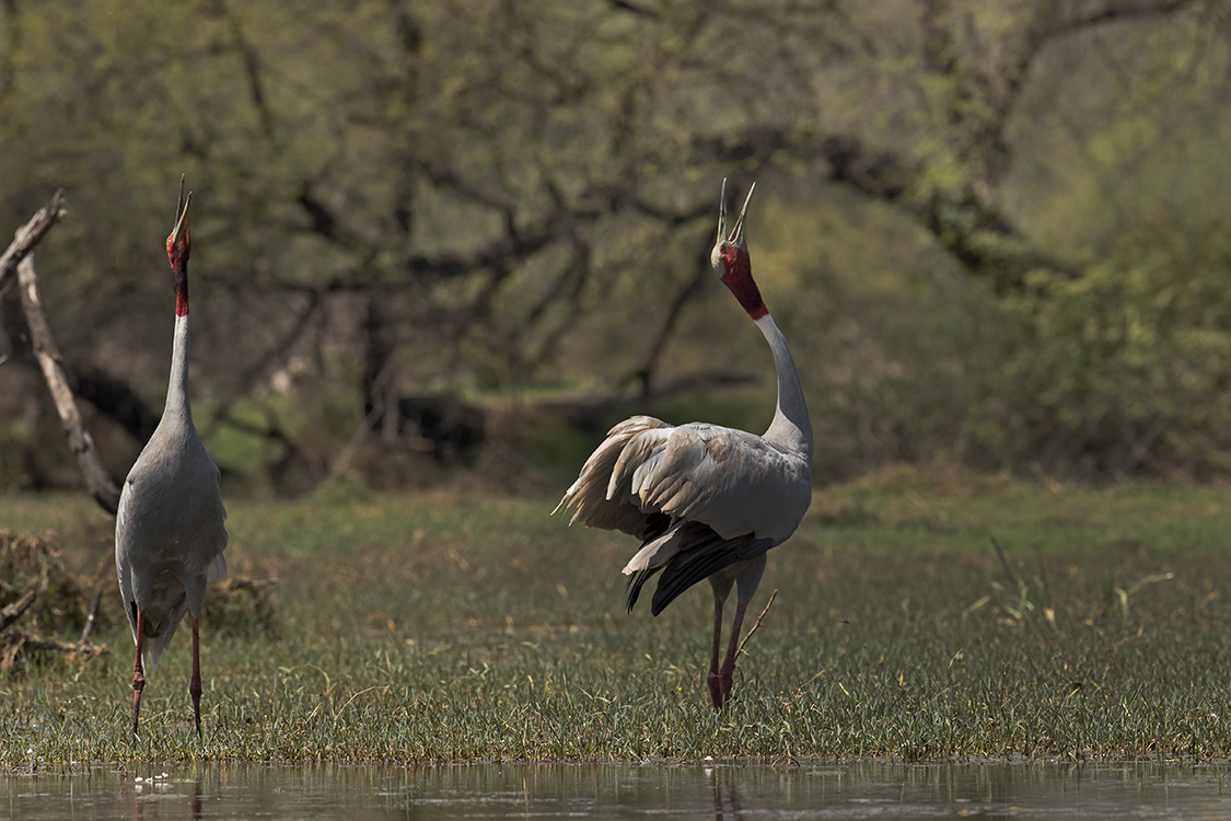 Courtship call during their courtship dance